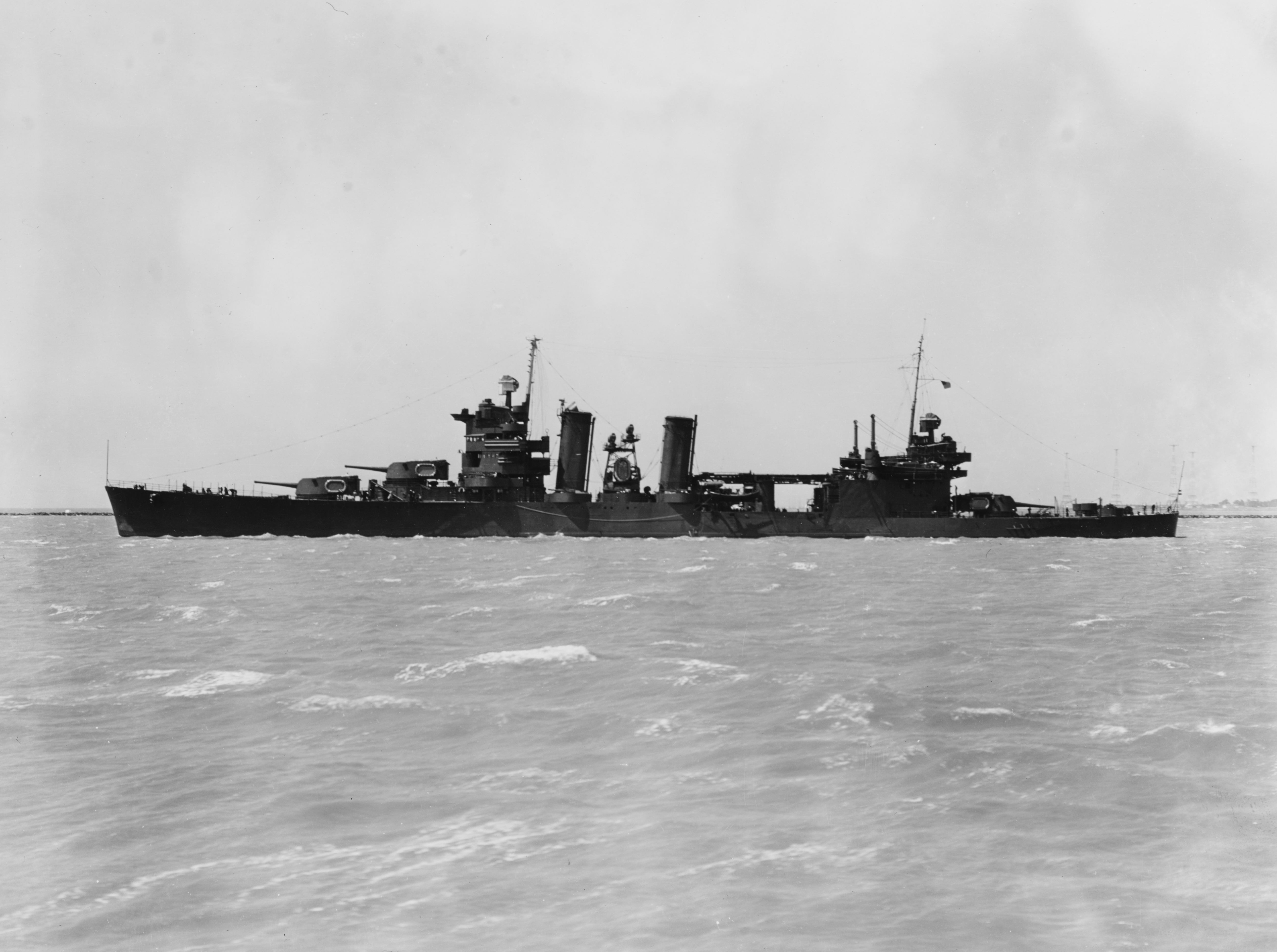 The U.S. Navy heavy cruiser USS Astoria (CA-34) off the Mare Island Navy Yard, California (USA), on 11 July 1941.